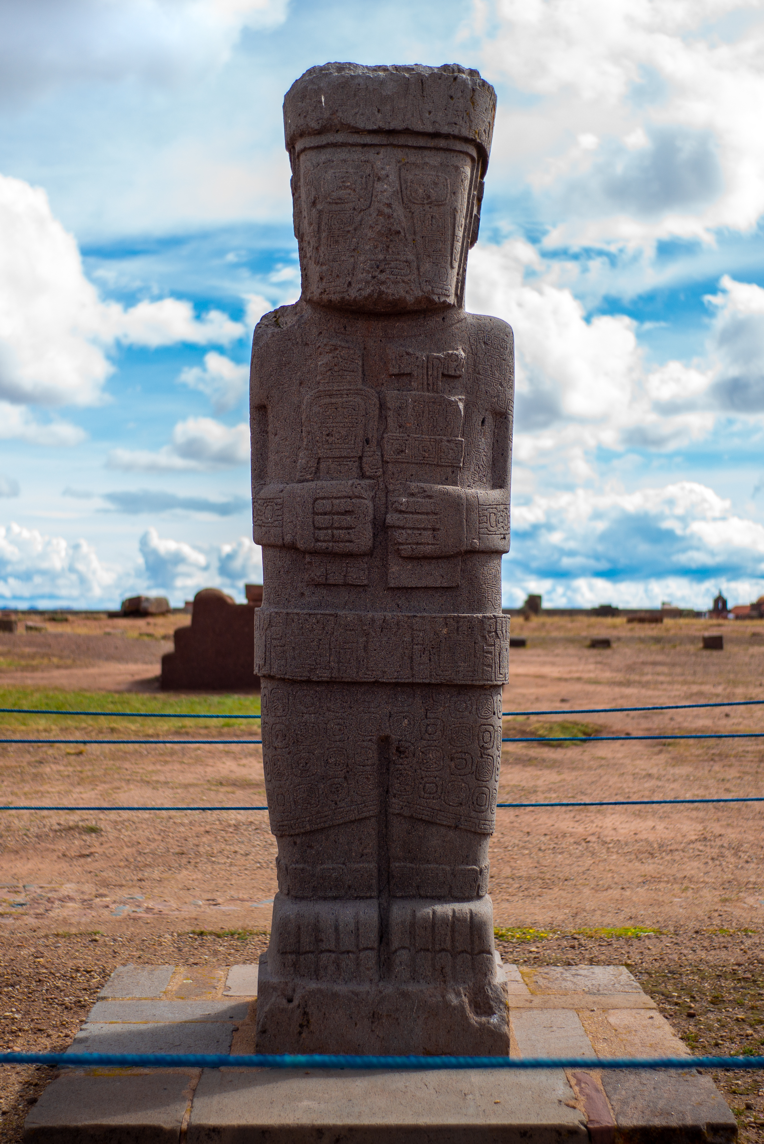 Bennet Monolith, Tiwanaku, Bolivia. Taken with a Leica M-P (Typ 240) and a Summicron-M 35 mm.